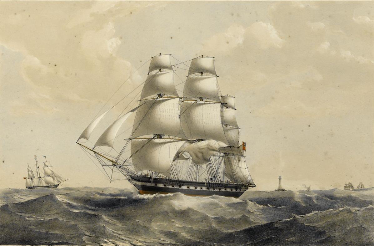 East Indiamen Madagascar, 1000 tons, 1837 build